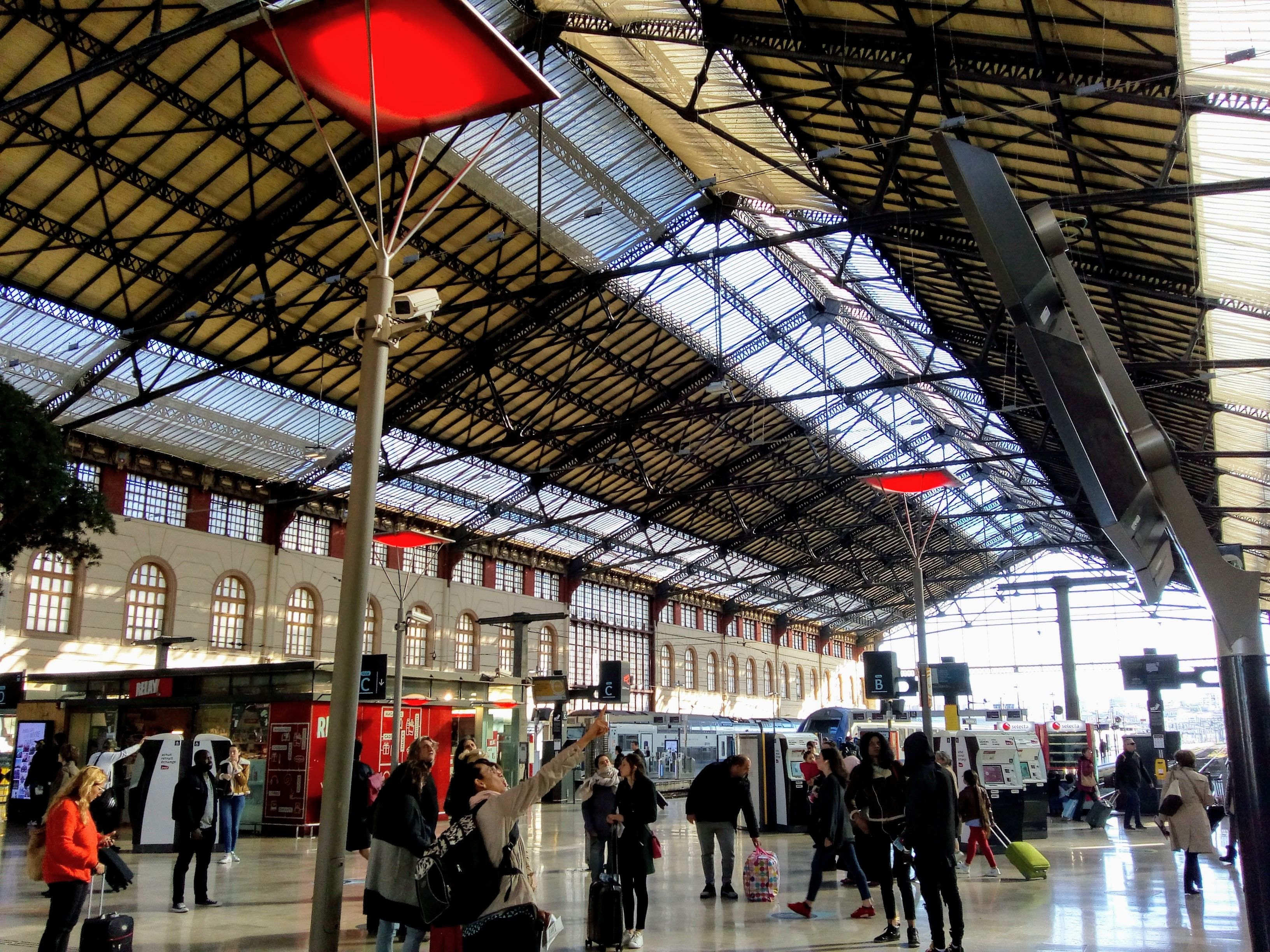 Concourse of Saint Charles Station, Marseille, France, in 2019